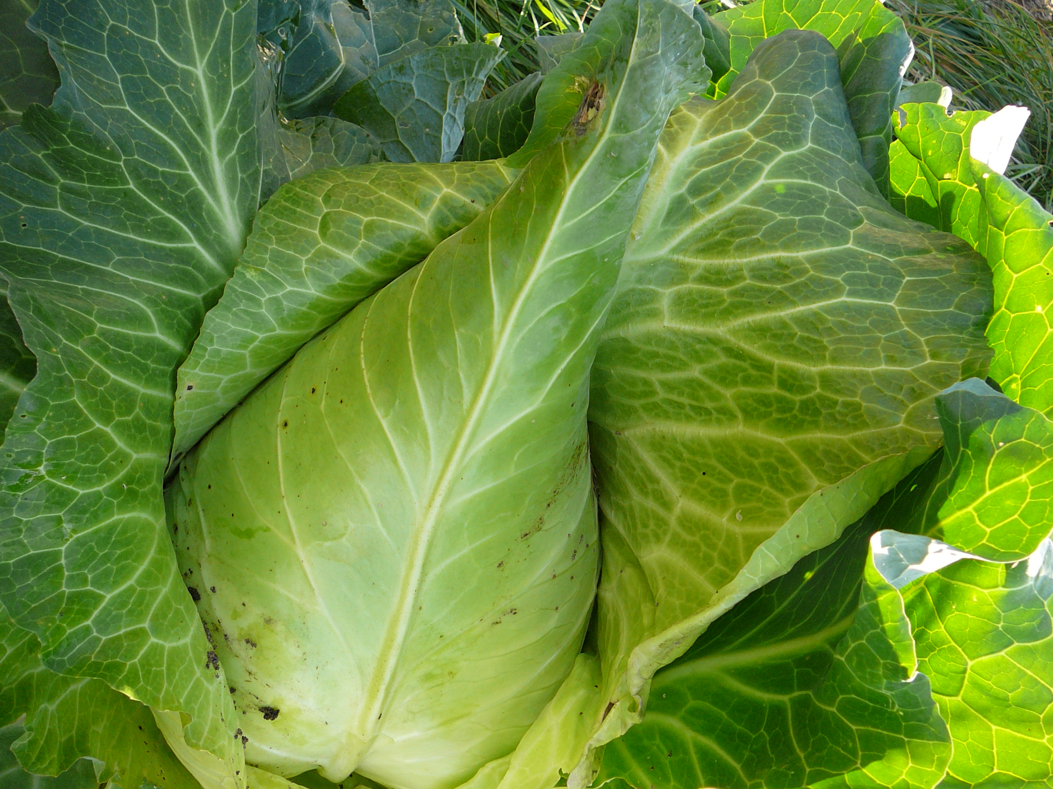 "Spitzkohl" or "Spitzkraut" , pointed white cabbage ( Brassica oleracea var. capitata f. alba ) - Leinfelden - Baden-Württemberg - Germany